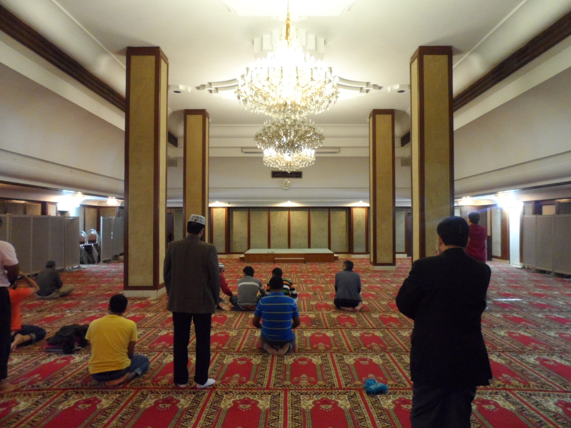 Prayer Hall, Kowloon Mosque & Islamic Centre, Kowloon, Hong Kong, China